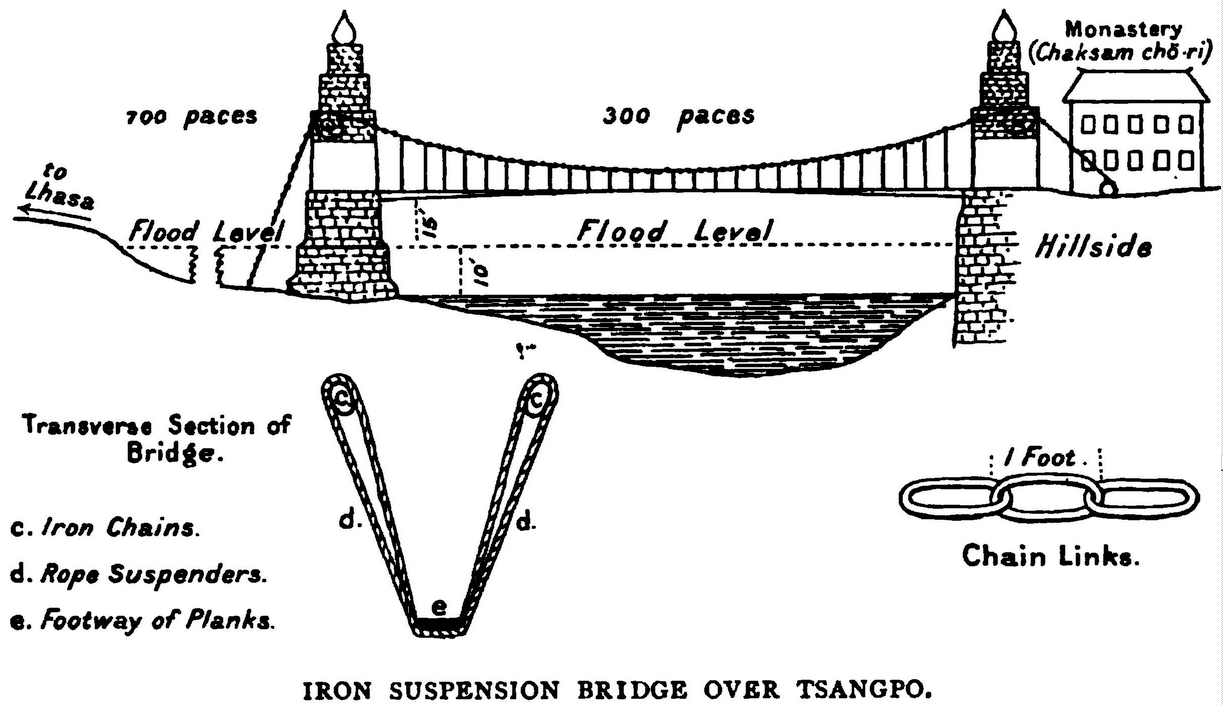 A diagram of one of the earliest known suspension bridges in the world, built in 1430, at Chushul, south of Lhasa in Tibet. The image was taken by an Indian spy working for the Survey of India in 1878, and published by Waddell in 1905.